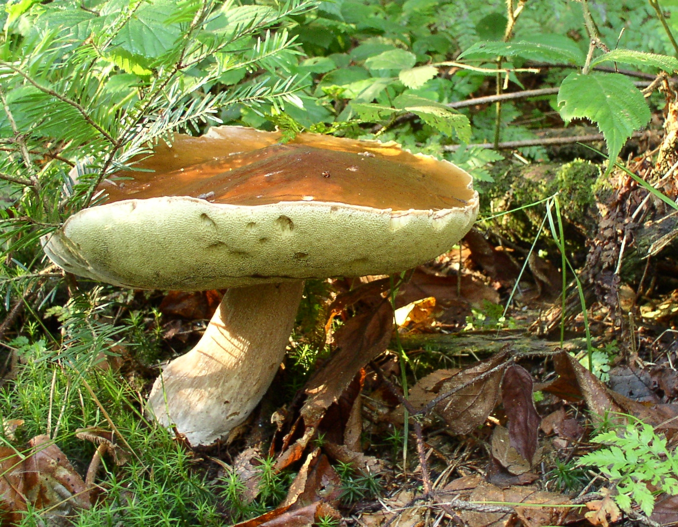 Boletus edulis mushroom in Poland